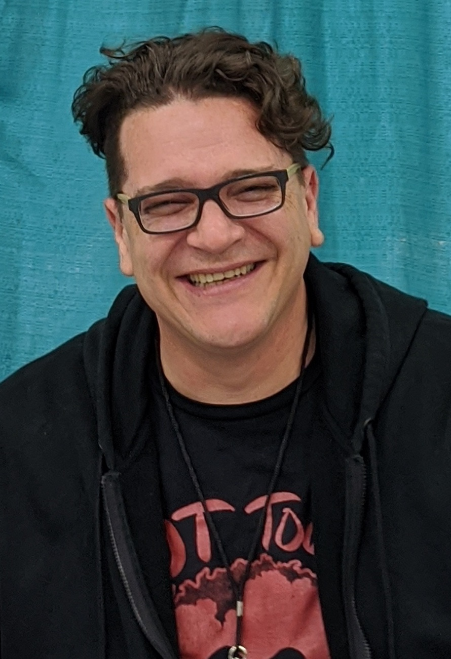 Chris Rager at GalaxyCon Louisville in 2019